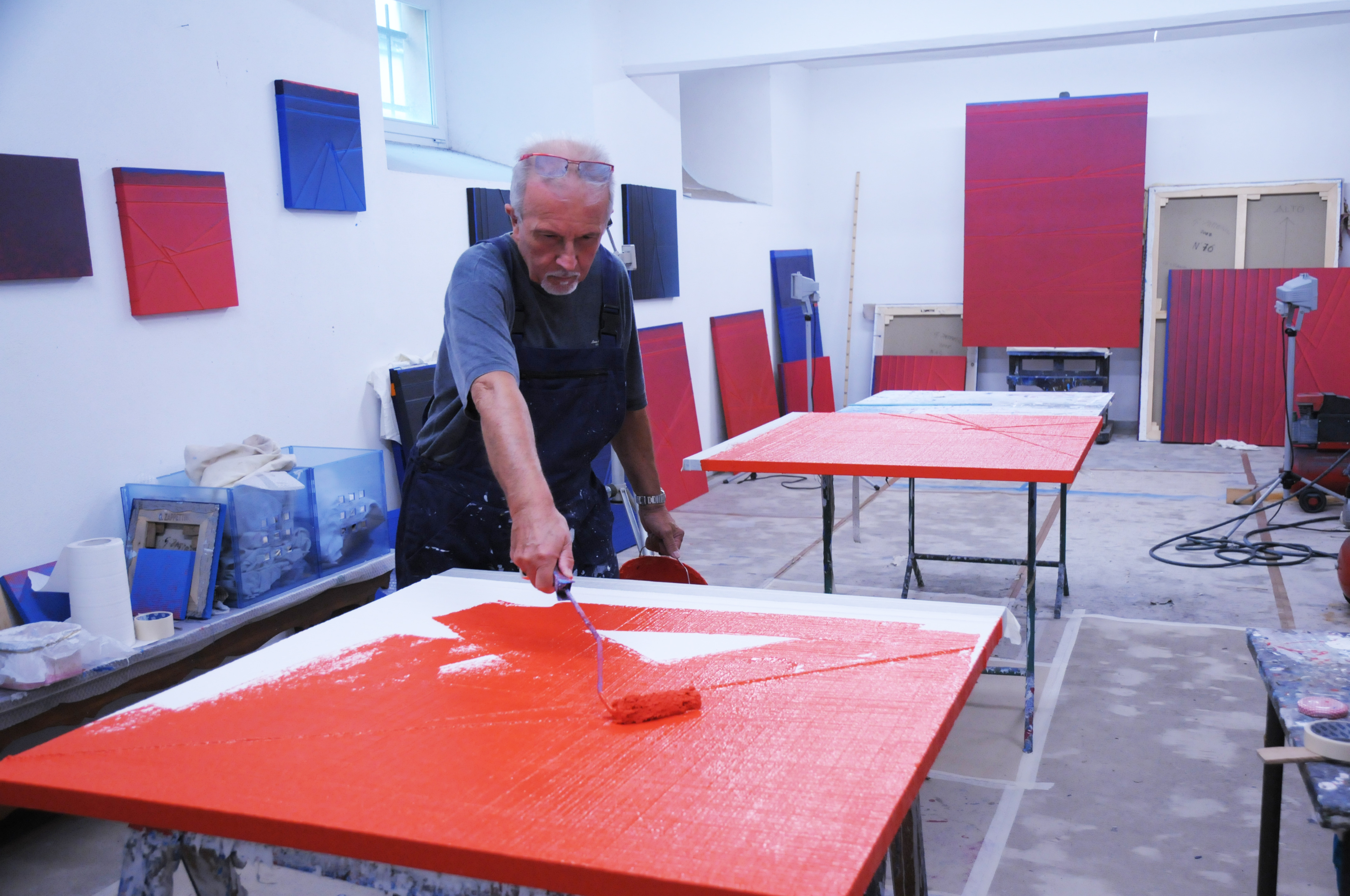 Gianfranco Zappettini at work, 2010s